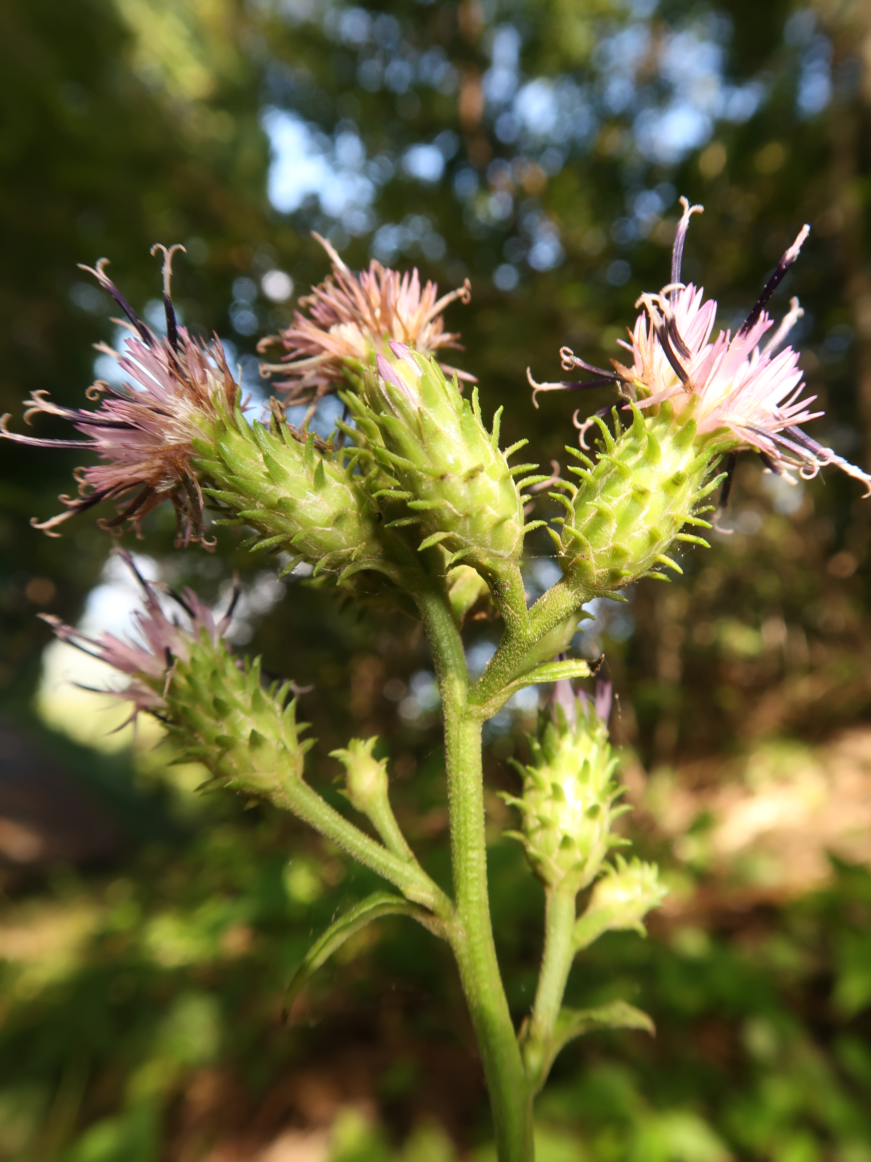 Saussurea sendaica, Naka-dori area, Fukushima pref., Japan